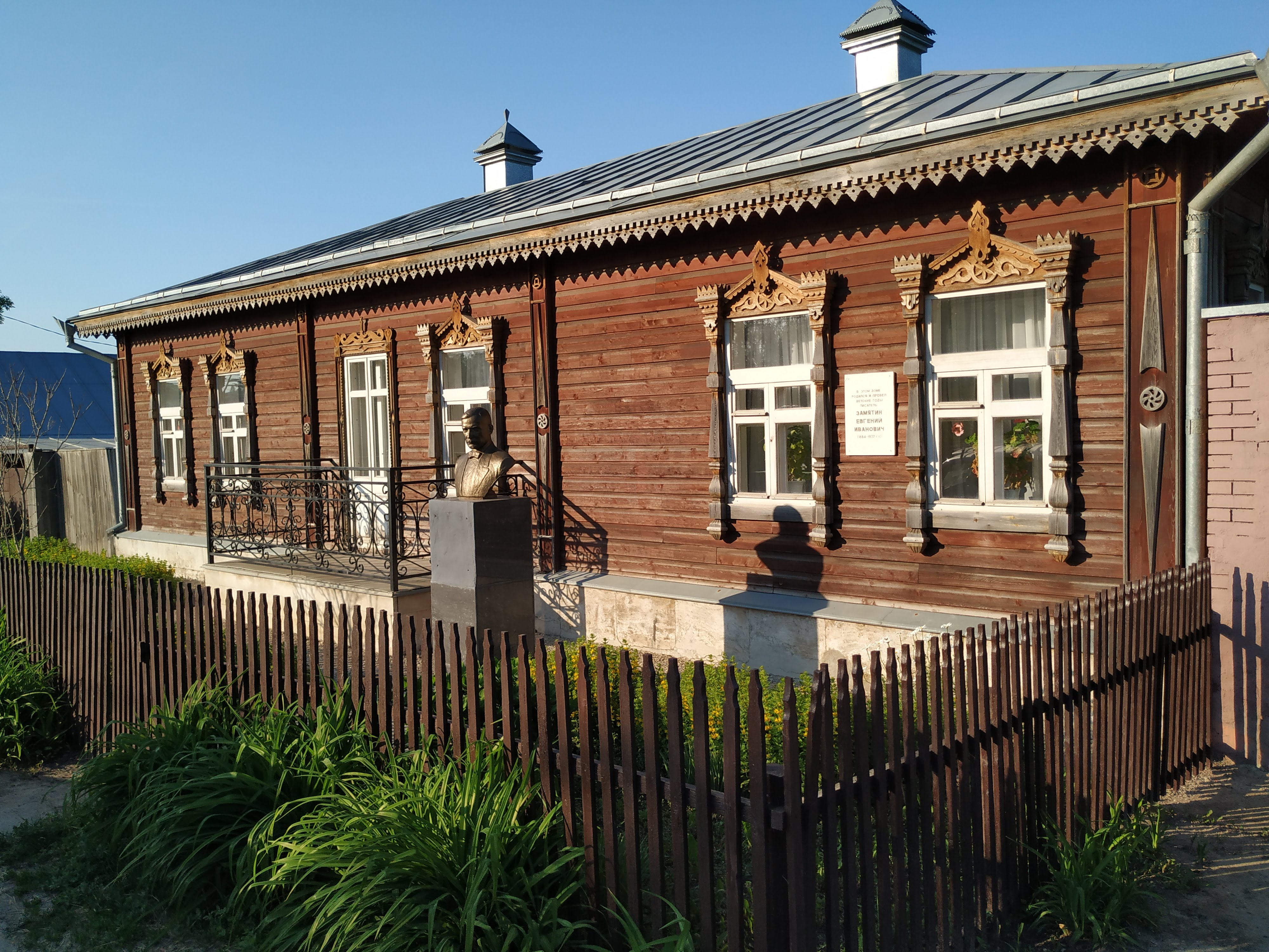 Zamyatin House in Lebedyan